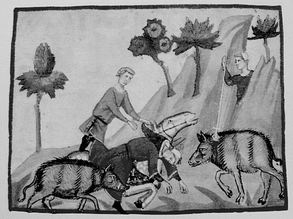 Death of Philip IV. at hunting